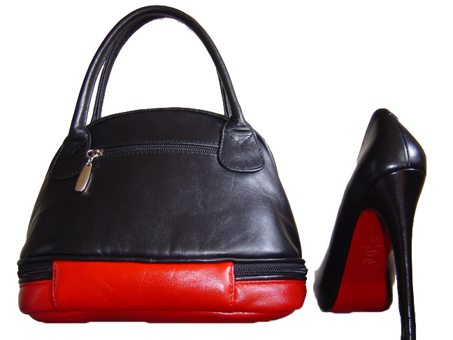 Dare Molto by Gaia Pervoinni F. H. and Very Prive by Christian Louboutin